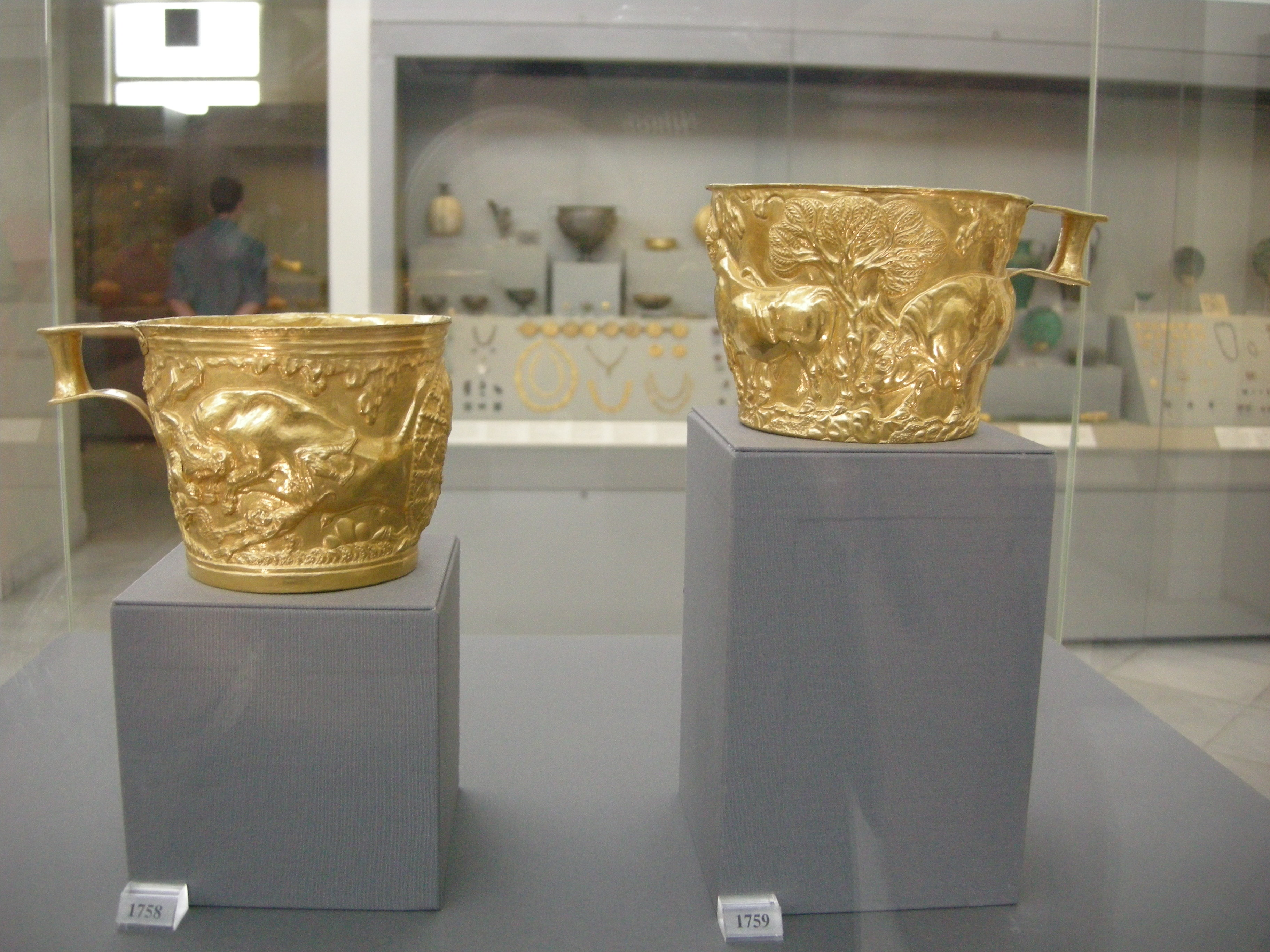 The Vapheio cups. Gold with repoussé decoration, LHII. From the Vapheio tholos tomb, 1888.